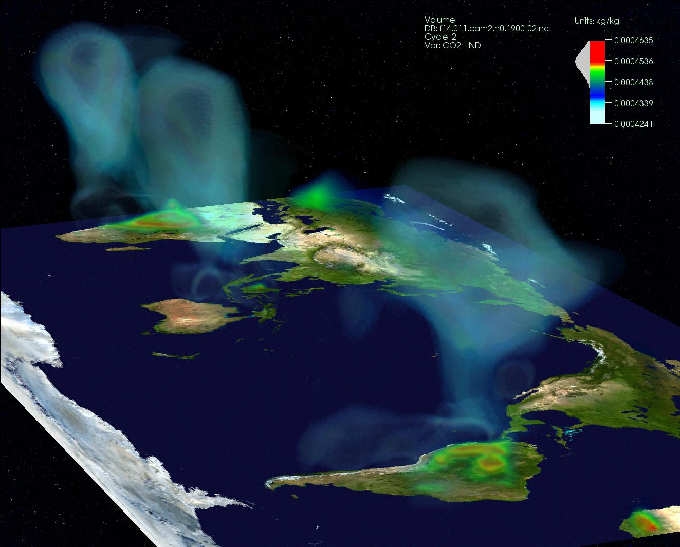 Climate visualization This visualization depicts the carbon dioxide from various sources that are advected individually as tracers in the atmosphere model. Carbon dioxide from the ocean is shown as plumes during Feb. 1900. Image courtesy of Forrest Hoffman and Jamison Daniel of Oak Ridge National Laboratory.